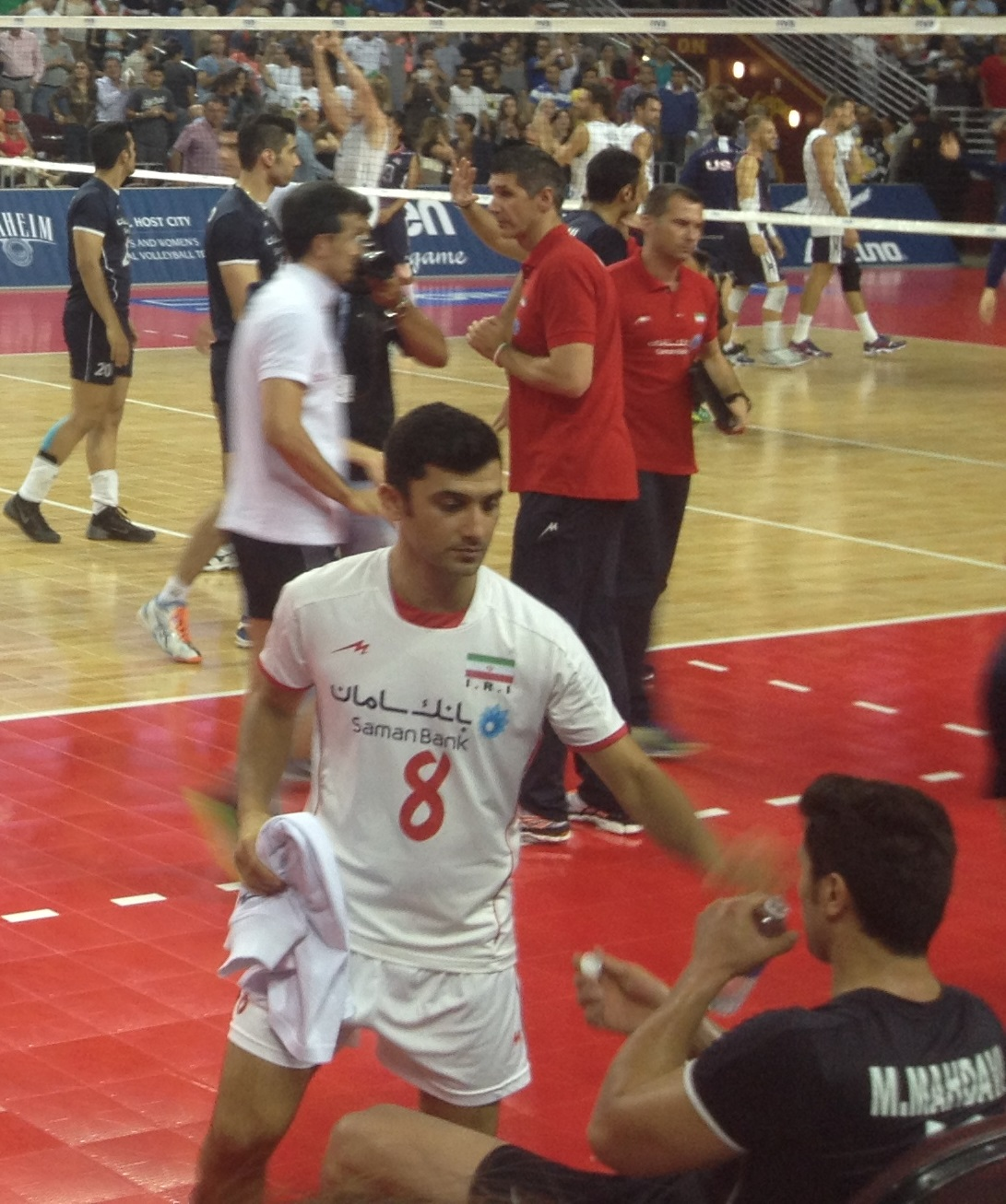 Alizadeh Volleyball Iran vs USA game.